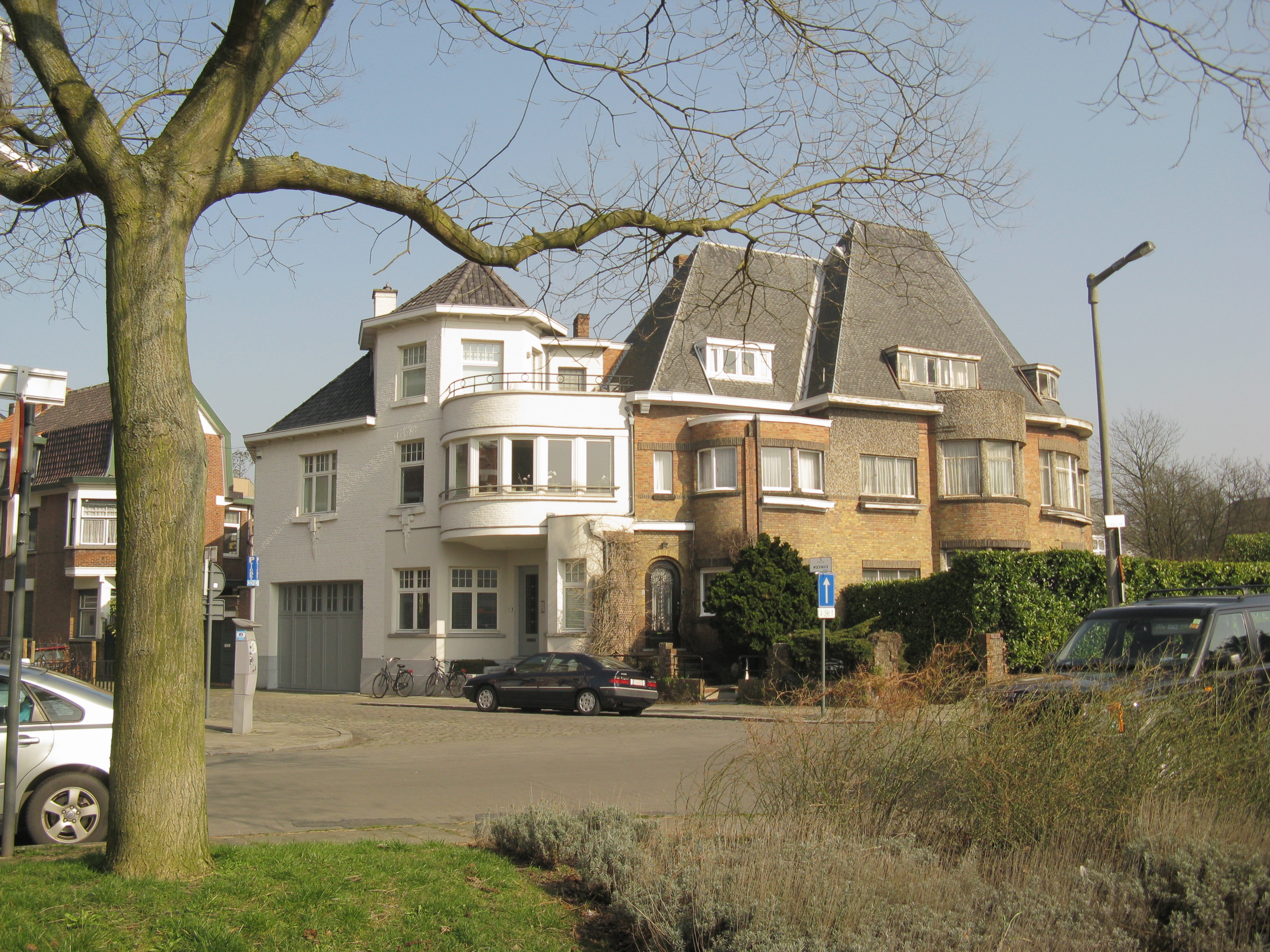 Houses in the Millionaire's Quarter in Ghent, Belgium.